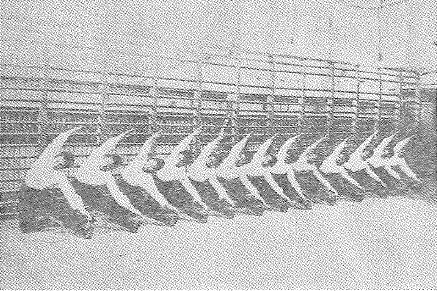 This is Swallow Pose from Nikaidou 5 Birds Exercise. It was performed in Nikaido Gymnastic School.